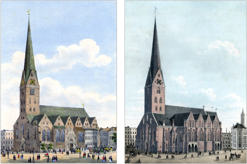 Church of St. Petri, Hamburg. On the left side before the conflagration of Hamburg in 1842, on the right side the sanctification of the new building in 1849. This is a photograph of an architectural monument.